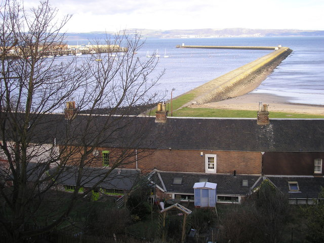 Granton Harbour from Granton Road The view across the houses on Lower Granton Road to the Eastern Breakwater of Granton Harbour. The houses in the foreground are on Lower Granton Road and the view here is of the rear of these properties. The back gardens have a steep incline and are difficult to maintain (but who needs an attractive back garden when you look out on the Forth and over to Fife).